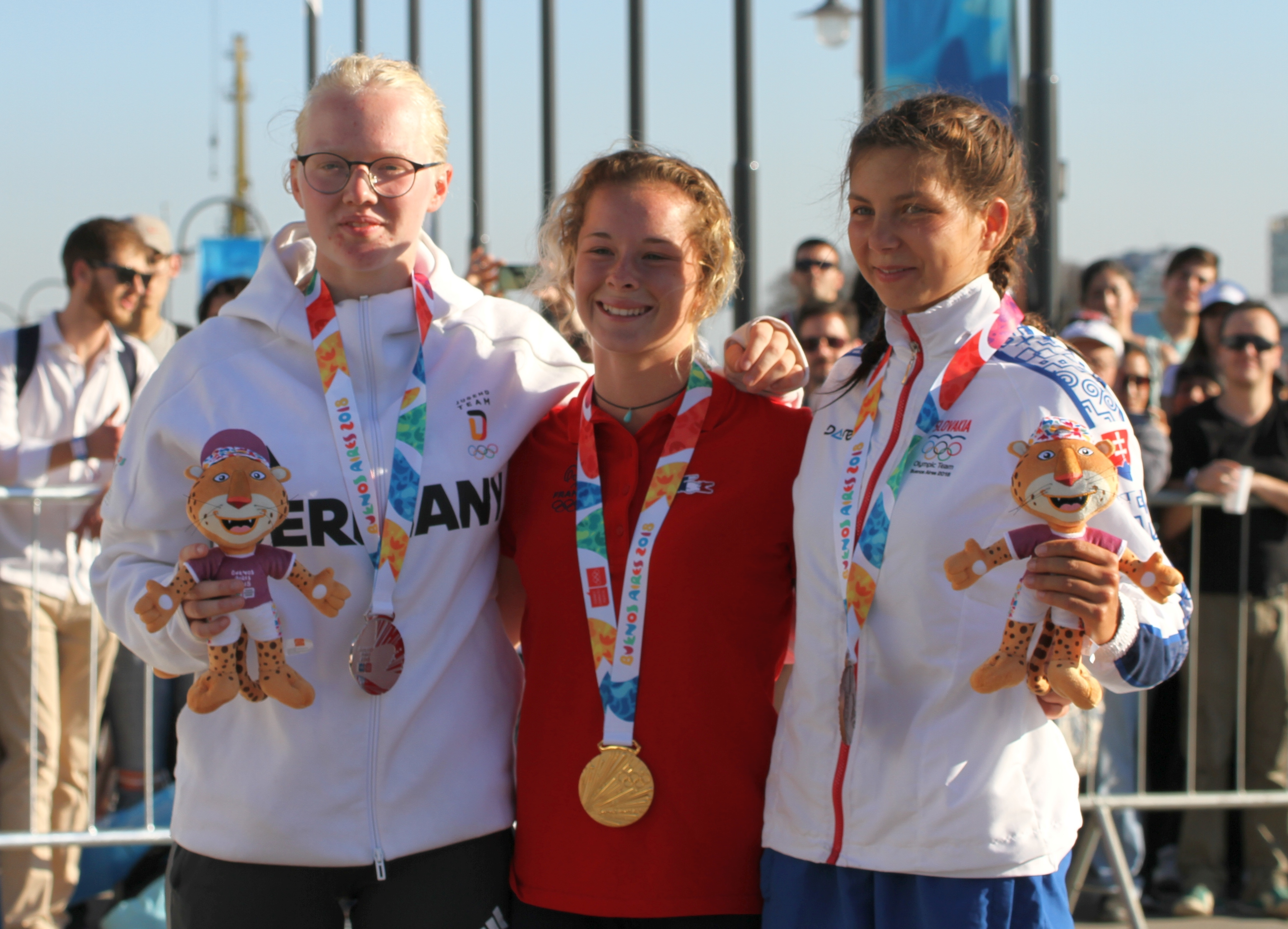 Canoeing at the 2018 Summer Youth Olympics at 16 October 2018 – Girls' C1 slalom Gold Medal Race: Doriane Delassus (France, gold) - Zola Lewandowski (Germany, silver) - Emanuela Luknárová (Slovakia, bronze)